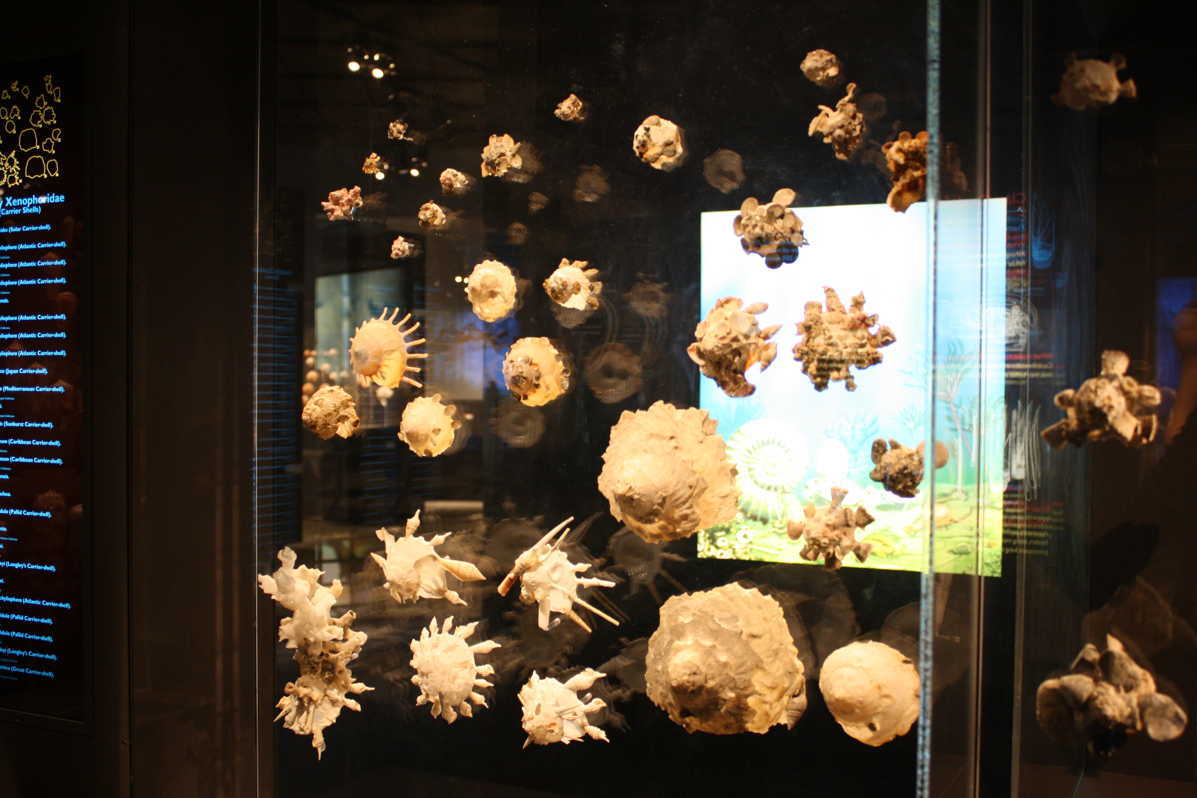 Family Xenophoridae (Carrier Shells) Wikipedia Loves Art at the Houston Museum of Natural Science This photo of item # [1] at the Houston Museum of Natural Science was contributed under the team name "The_Wookies" as part of the Wikipedia Loves Art project in February 2009. Houston Museum of Natural Science The original photograph on Flickr was taken by andytang20—please add a comment to the original Flickr page whenever a use has been made on Wikipedia or another project. Project galleries on Flickr: this institution, this team